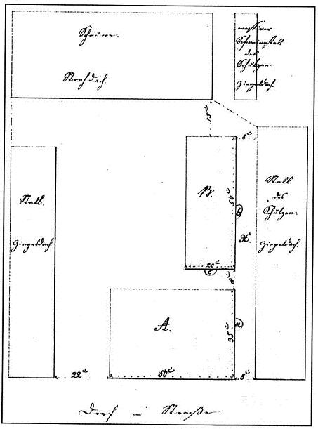 New overall plan for the burnt down farm house Dorfstr. 51 in Gömnigk, 1856. The village Gömnigk is a part of the town Brück in the district Potsdam Mittelmark, state Brandenburg, Germany, at the border to the natural preserve Naturpark Hoher Fläming.